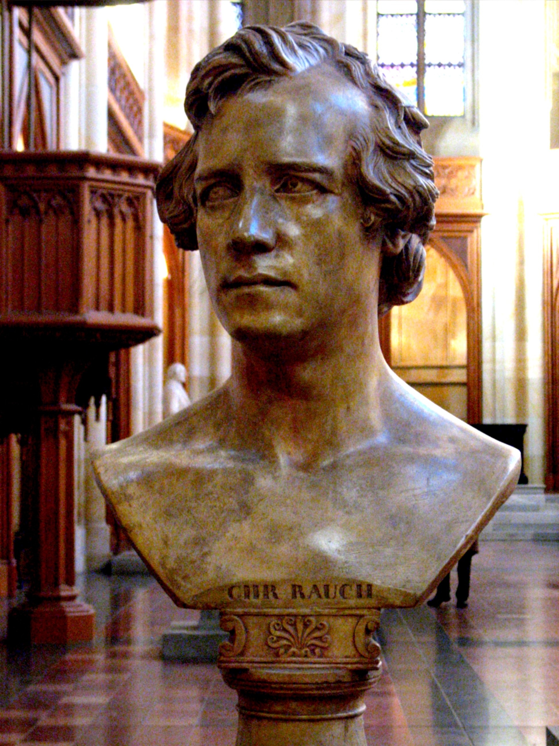 "self-portrait" by Christian Daniel Rauch, toned gypsum (1828)